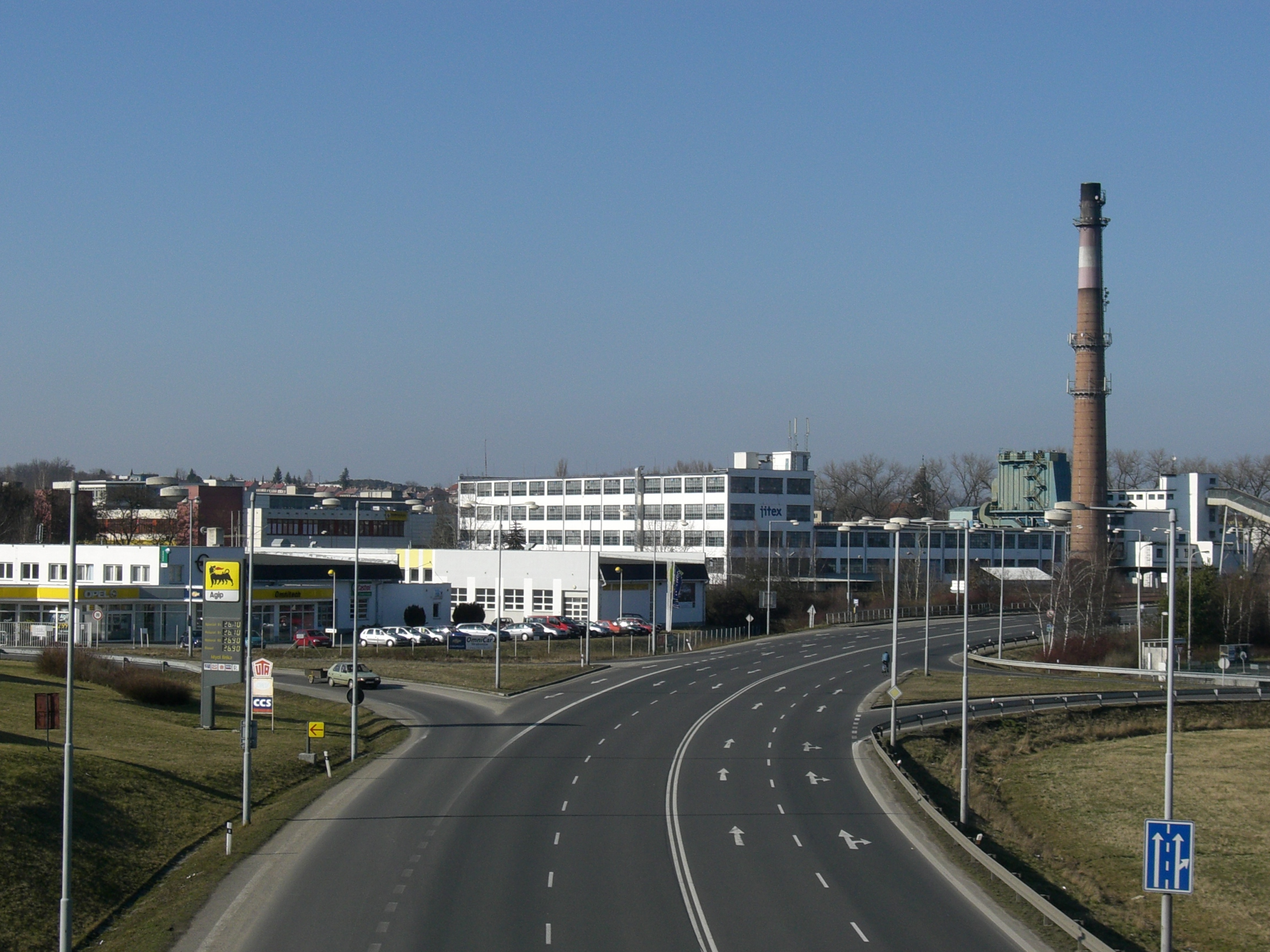 Textil factory Jitex, Písek. Silnice I/20.